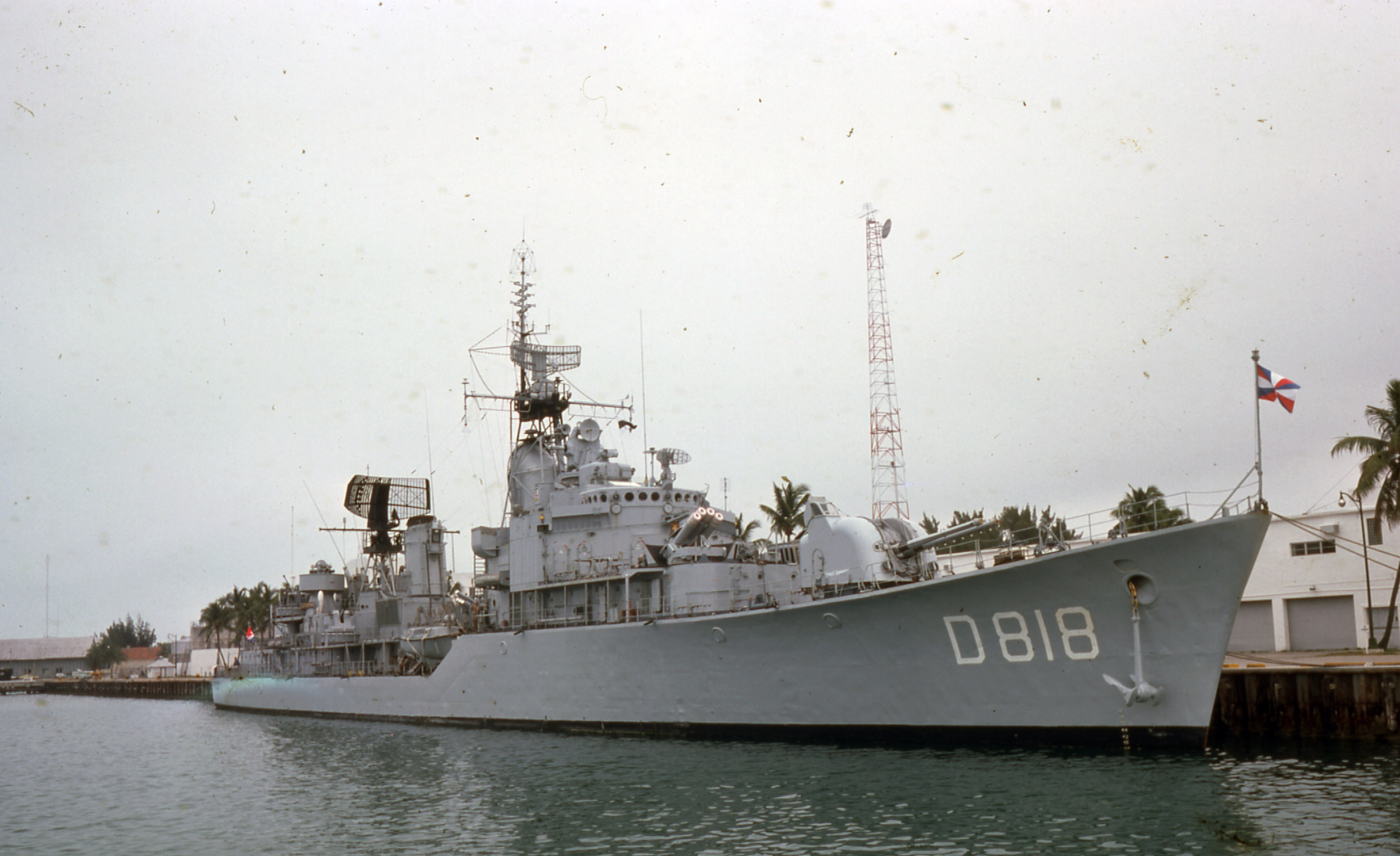 Dutch DD 818 at Truman Annex. Photo by Raymond L. Blazevic.